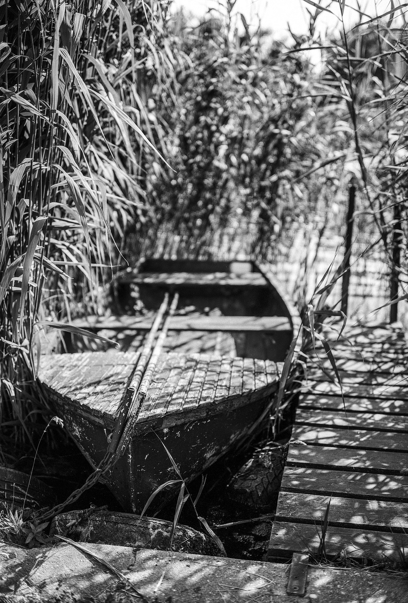 500px provided description: Fuji GW690III 6x9 Professional Fomapan 100 developed with Foma R09 (Rodinal) 20deg 8:30min 1+50 Creative Commons - CC0 license, Public Domain (via Flickr [#lake ,#water ,#boat ,#old ,#vintage ,#film ,#fuji ,#wood ,#monochrome ,#analog ,#fishing ,#6x9 ,#lone ,#blackandwhite ,#rural ,#rusty ,#rustic ,#rodinal ,#foma ,#35 ,#rowboat ,#90mm ,#mediumformat ,#creative commons ,#r09 ,#gw690iii ,#gw690 ,#free image ,#public domain ,#fomafilm ,#cc0 ,#brenkee ,#filminotdead]